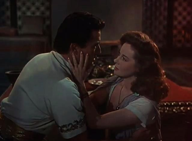 Gregory Peck & Susan Hayward in David and Bathsheba - trailer (cropped screenshot)